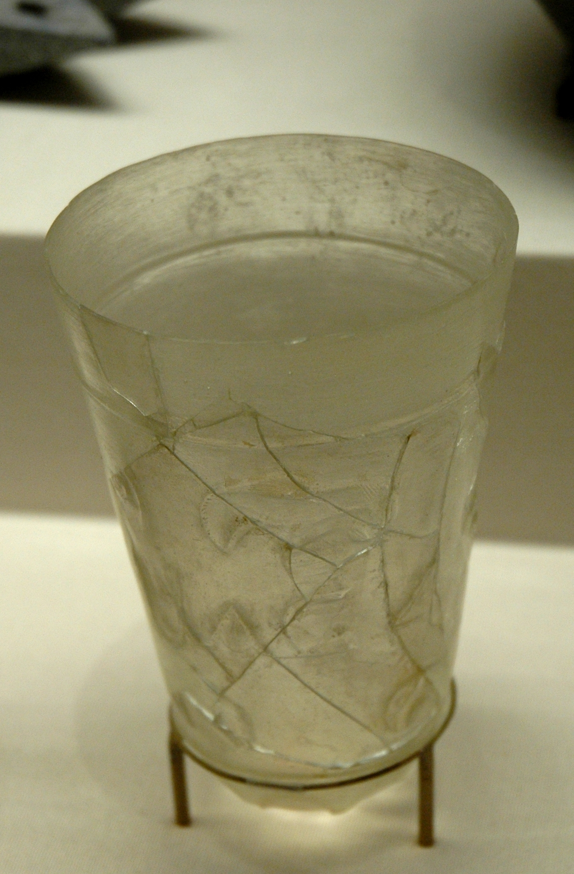 Beaker with petals decoration, bearing the potter's signature in Kufic script.